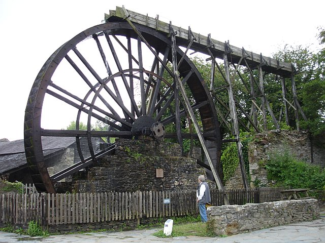 Waterwheel at Morwellham Quay, Devon, England